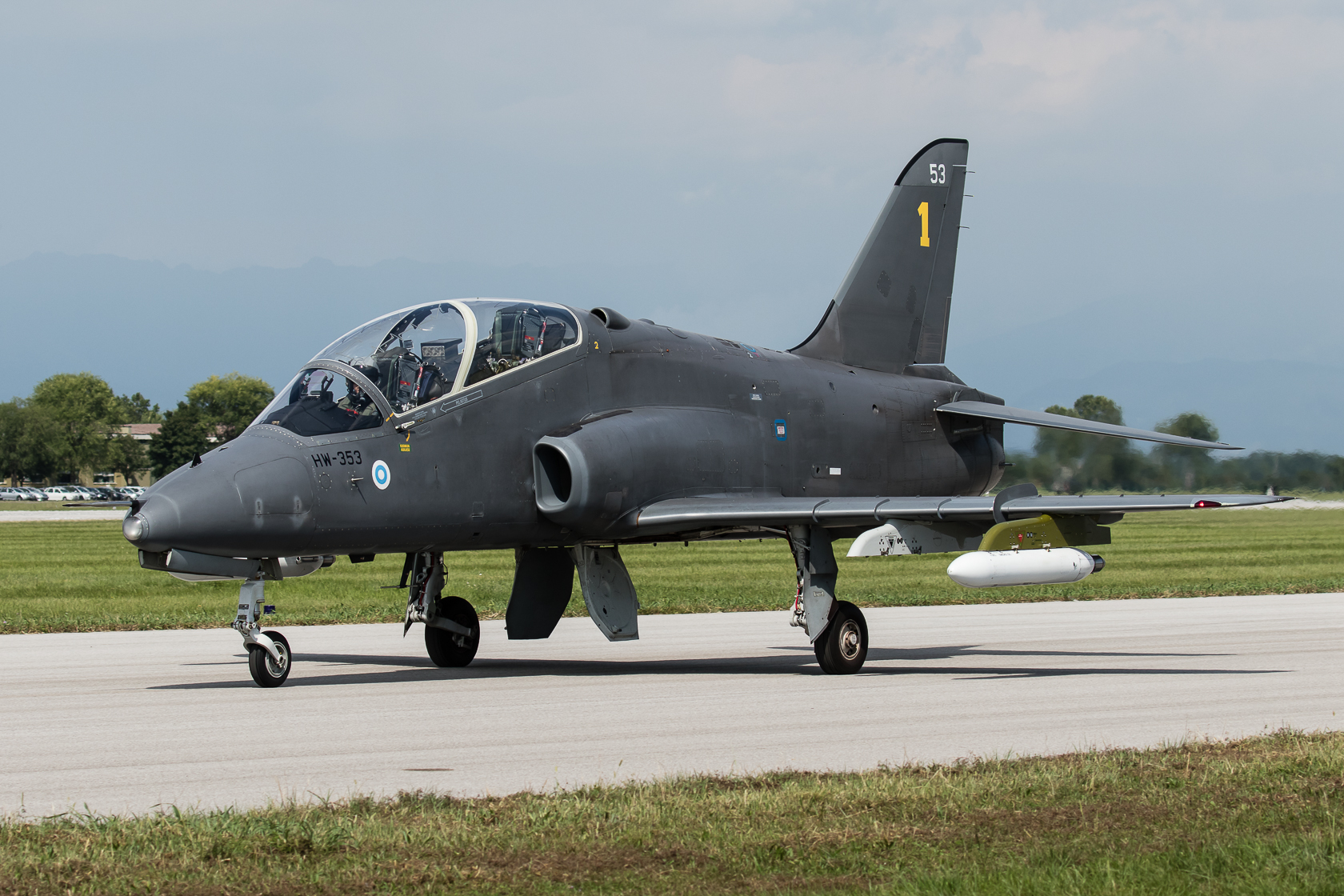 Finland - Air Force British Aerospace Hawk 51A HW-353 / 1 (cn 312405)